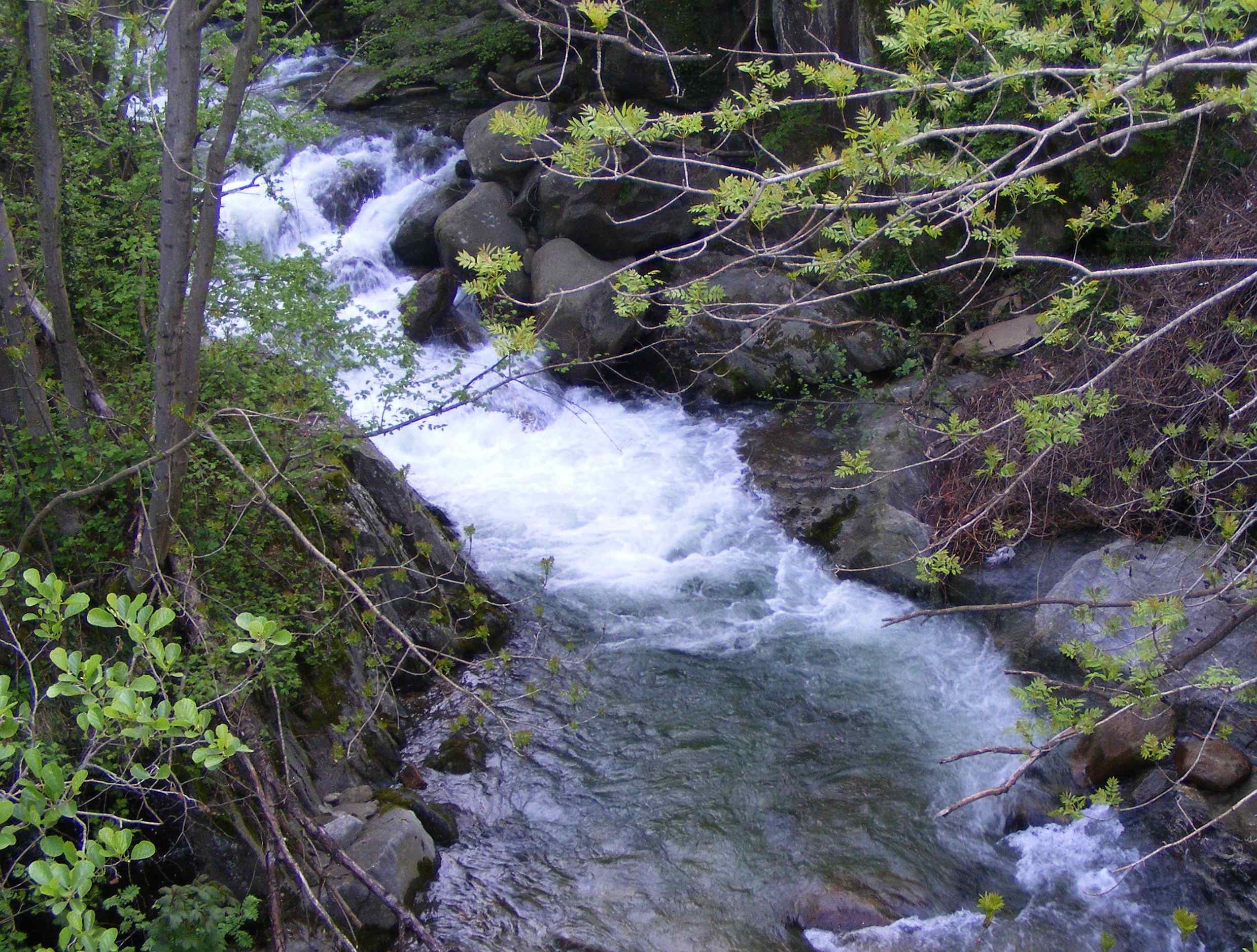 Piova creek fron the bridge between Colleretto Castelnuovo and Cintano (TO, Italy)